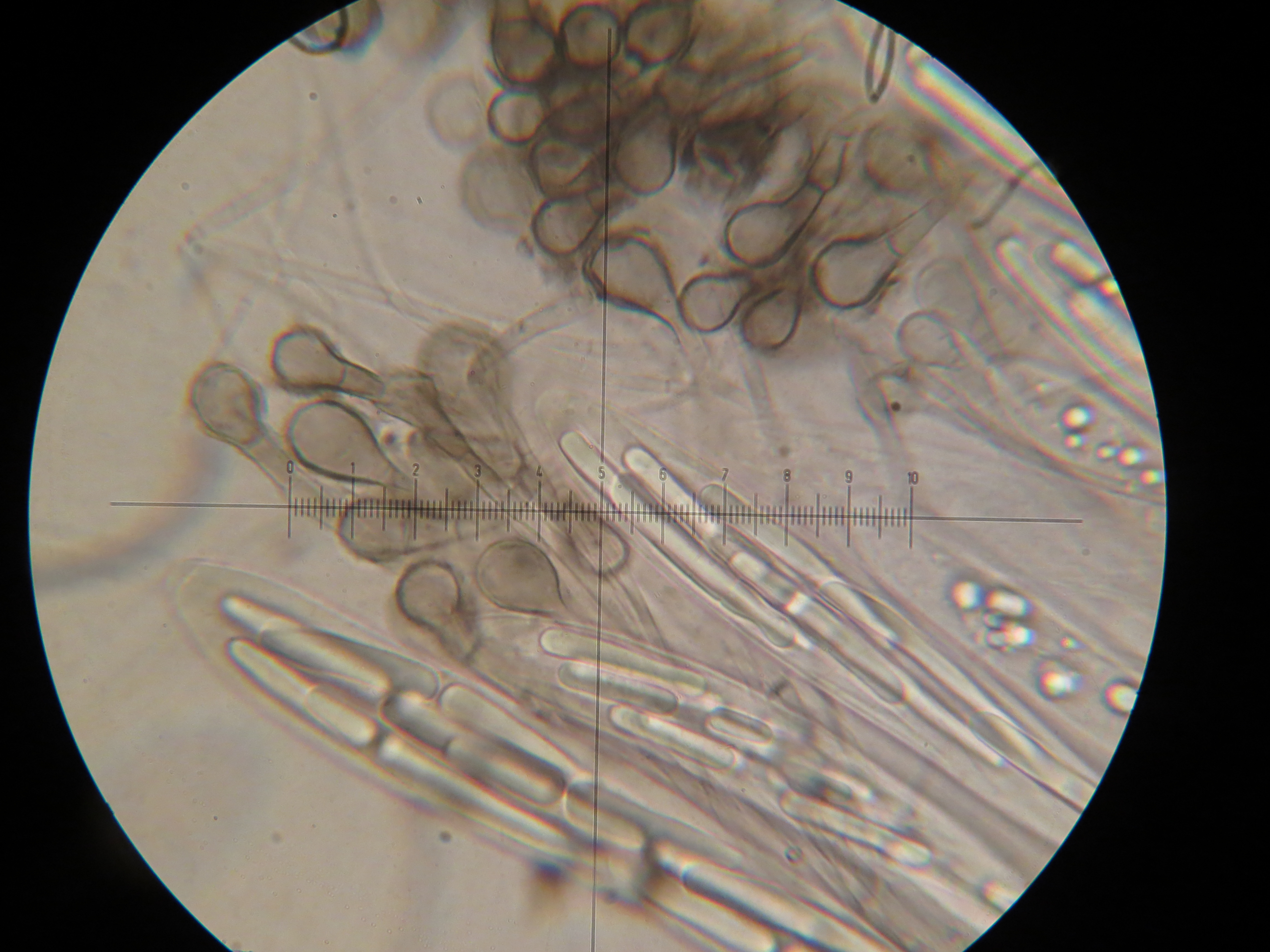 Microscopic view of paraphyses and asci of the earthtongue fungus Glutinoglossum glutinosum. "Notes: Asci with Paraphyses extending beyond the ends of the asci"